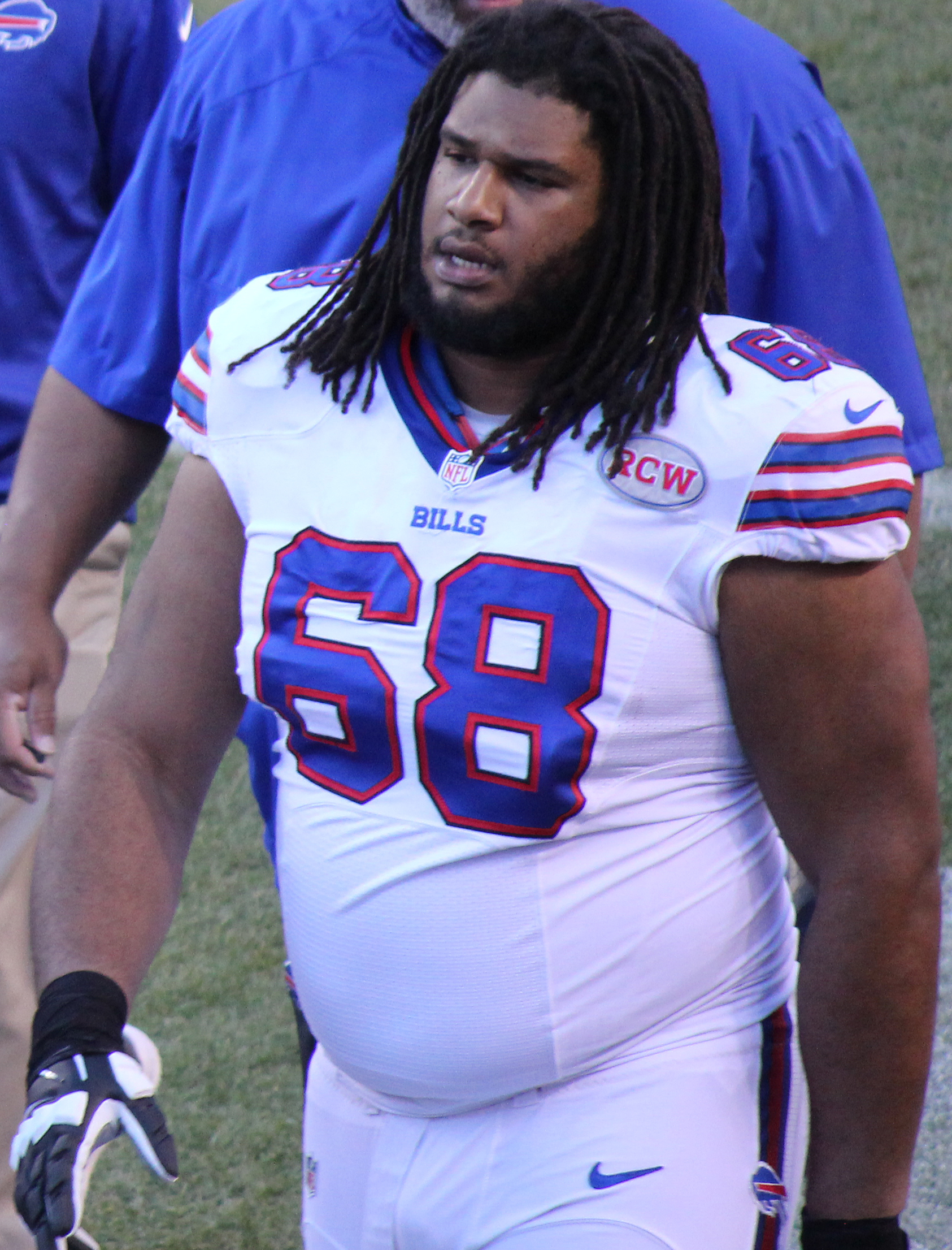 Cyril Richardson, a player on the National Football League.